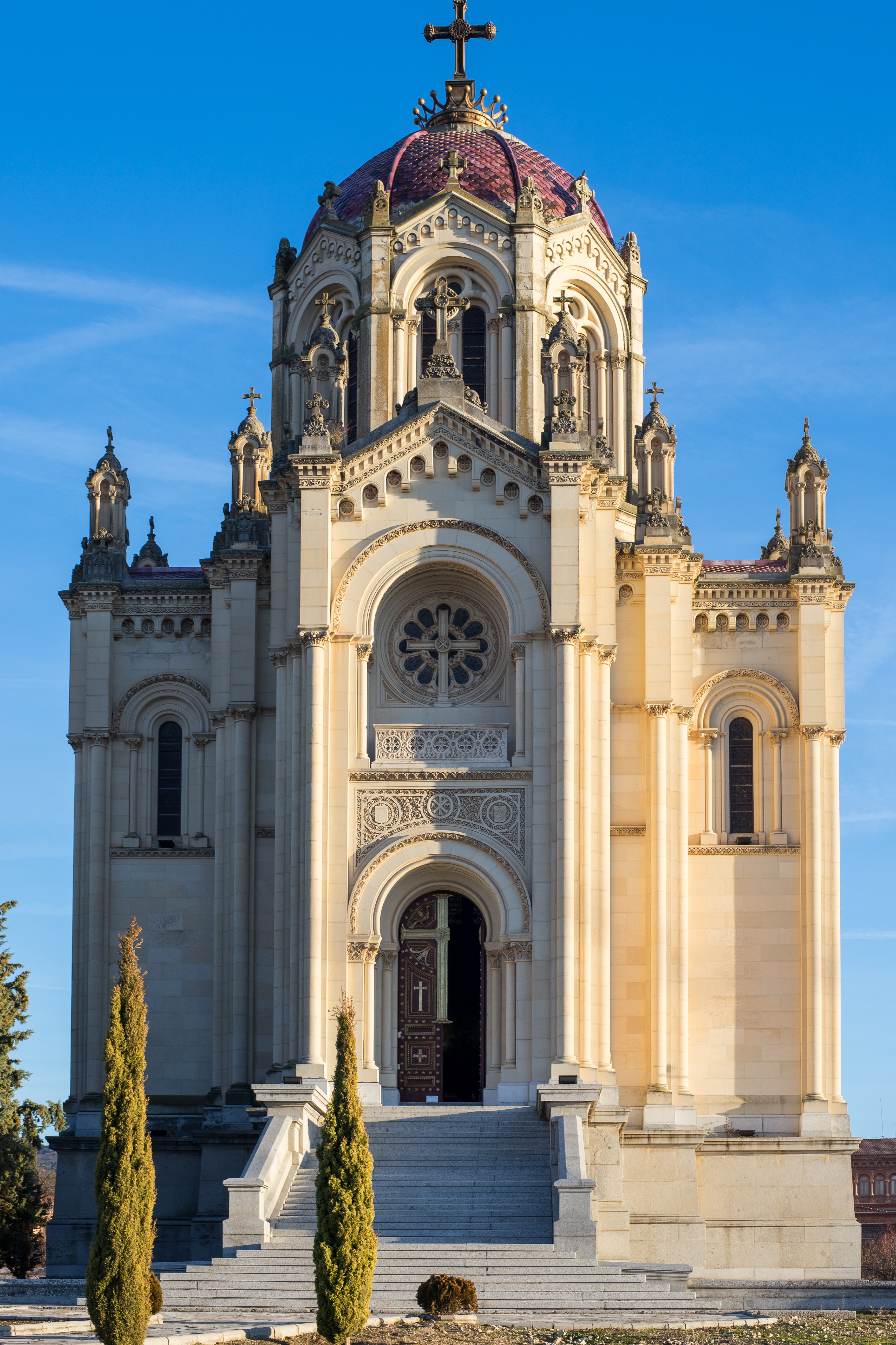 Sony Alpha a7 (ILCE-7) + Carl Zeiss Planar T* 50mm f1.4 C/Y (Contax/Yashica) @ 50mm f11 1/100s ISO-100